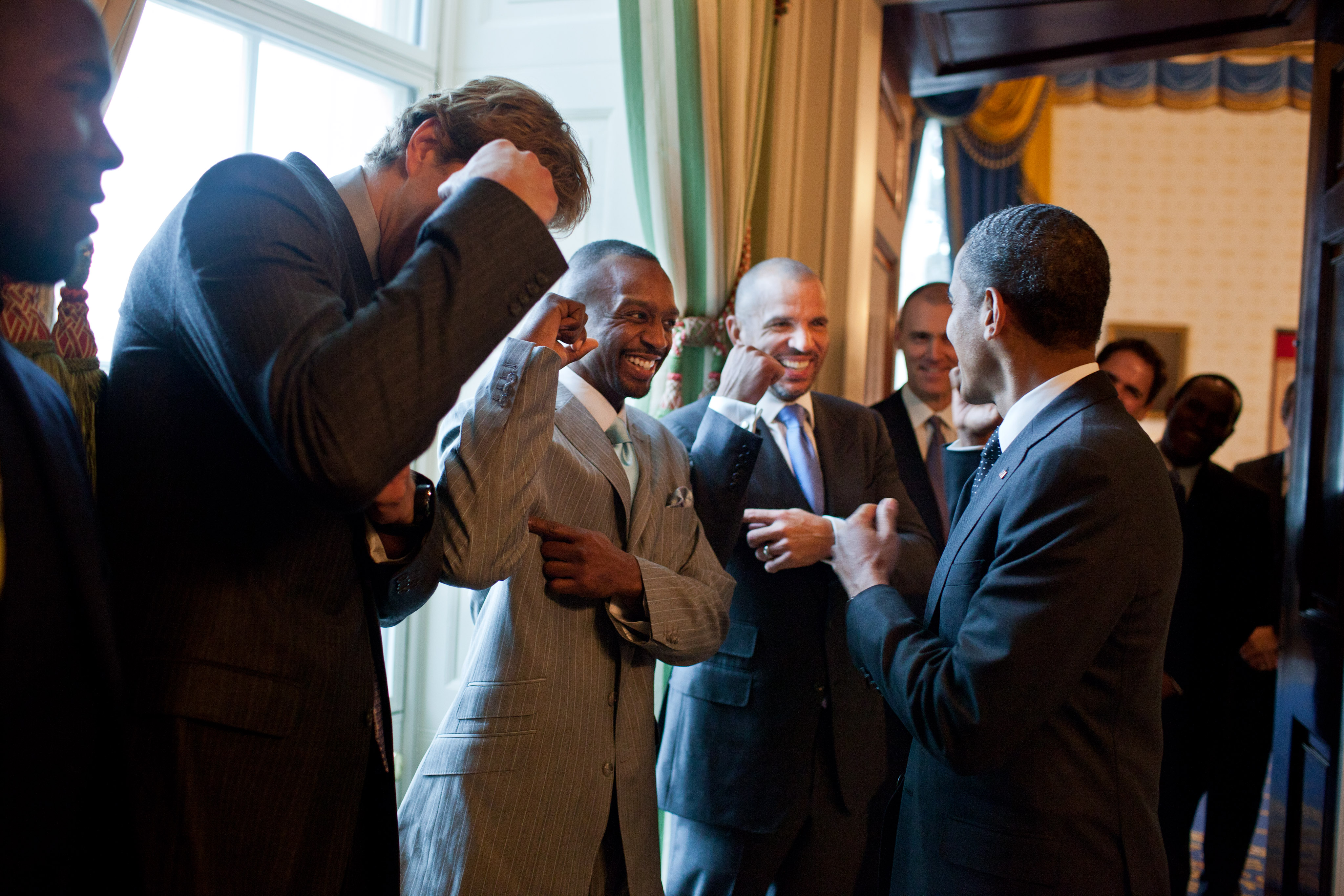 President Barack Obama jokes with members of the Dallas Mavericks in the Green Room of the White House before honoring the team and their 2011 NBA Championship victory, Jan. 9, 2012. (Official White House Photo by Pete Souza)